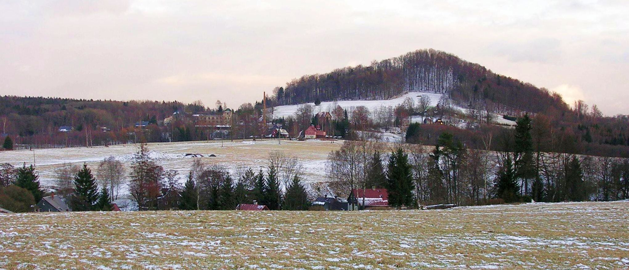 Doubice, Ústí nad Labem Region, the Czech Republic.